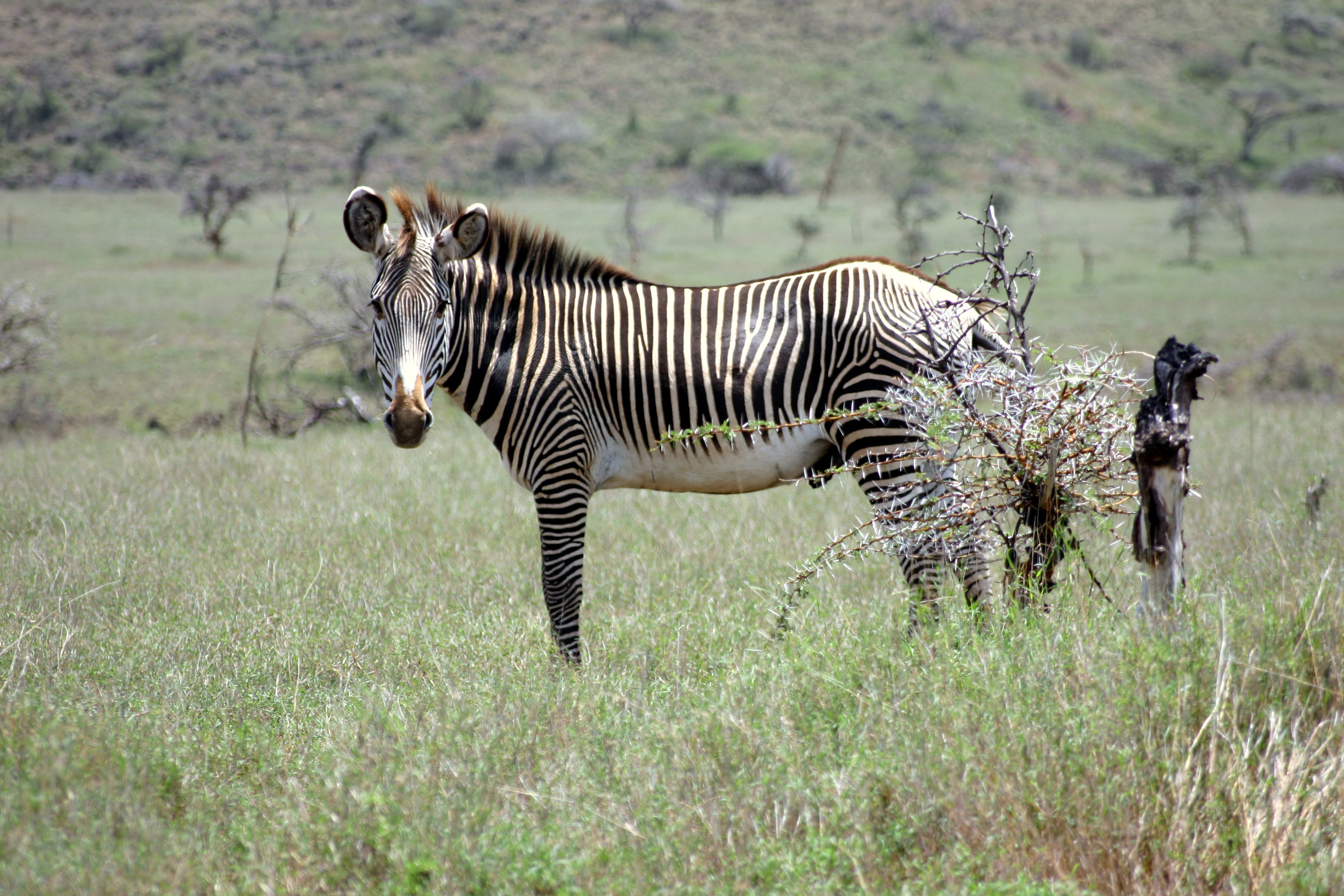 Male Grevy's zebra (Equus grevyi) in Kenya. The most endangered zebra species. Taken on March 5, 2006.